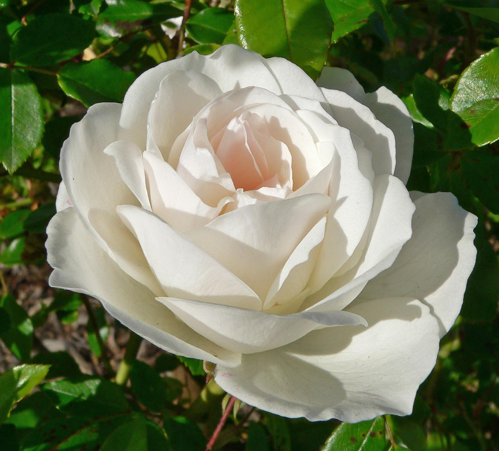 Photo of Rosa 'Iceberg' at the San Jose Heritage Rose Garden